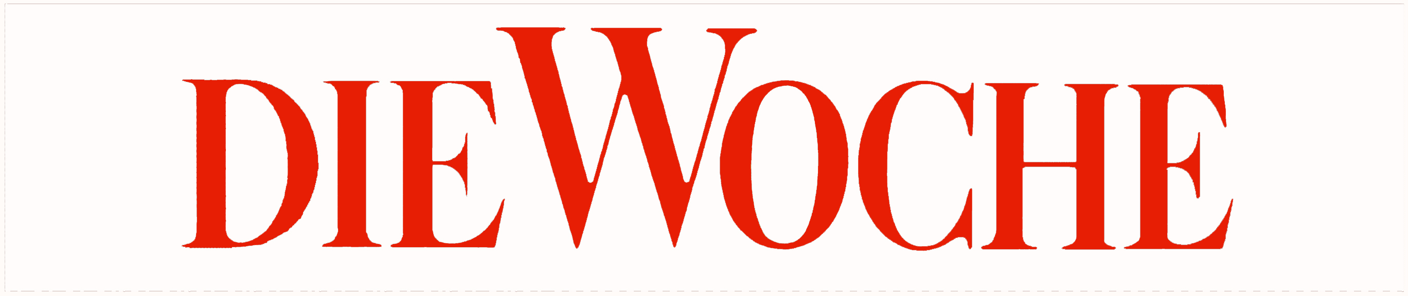 Logo of the former Swiss magazine Die Woche